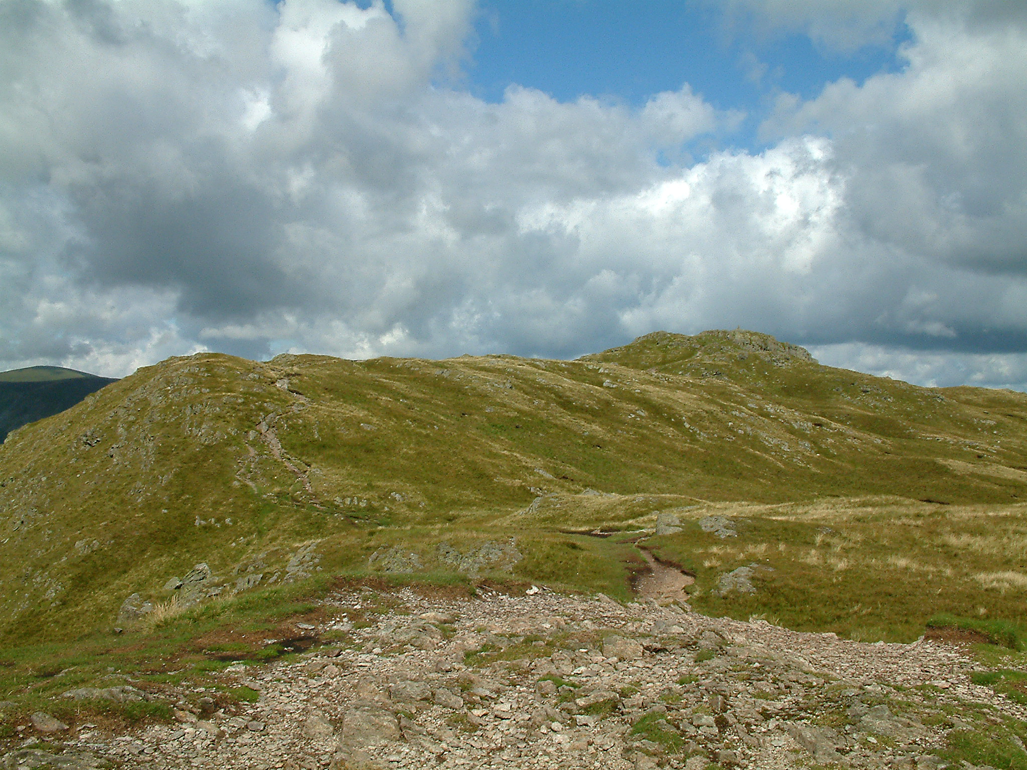 The summit ridge of the mountain Place Fell, located in the English Lake District, and 657m above sea level. Photograph by Stephen Dawson, 19 August 2004